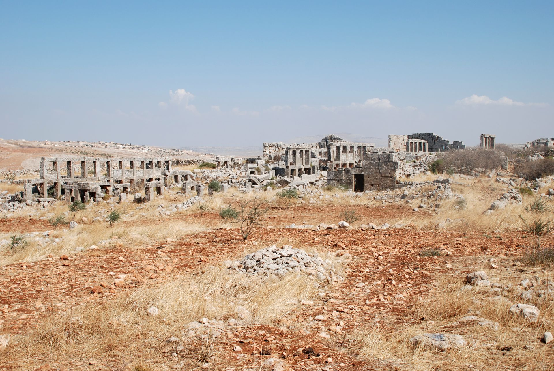 Bauda, dead city in Djebel Barisha, Syria, from southwest